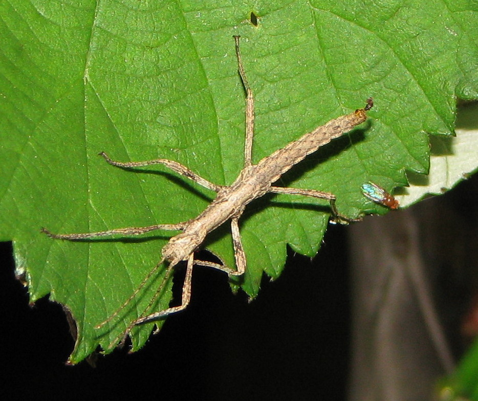 Larva of Sungay Stick Insect (Sungaya inexpectata)